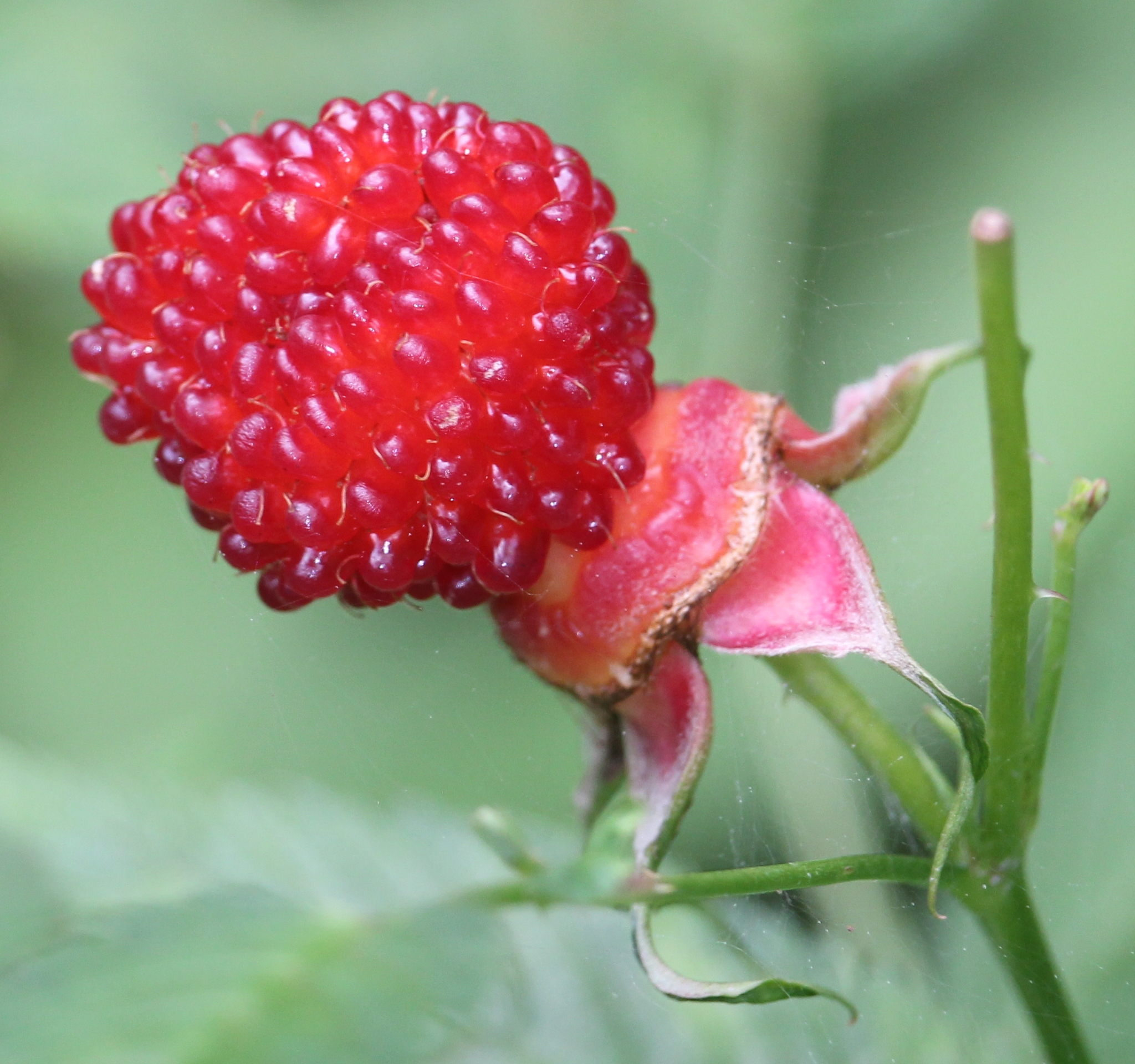 Rubus illecebrosus in Hida Mountains, Takayama, Gifu Prefecture, Japan.